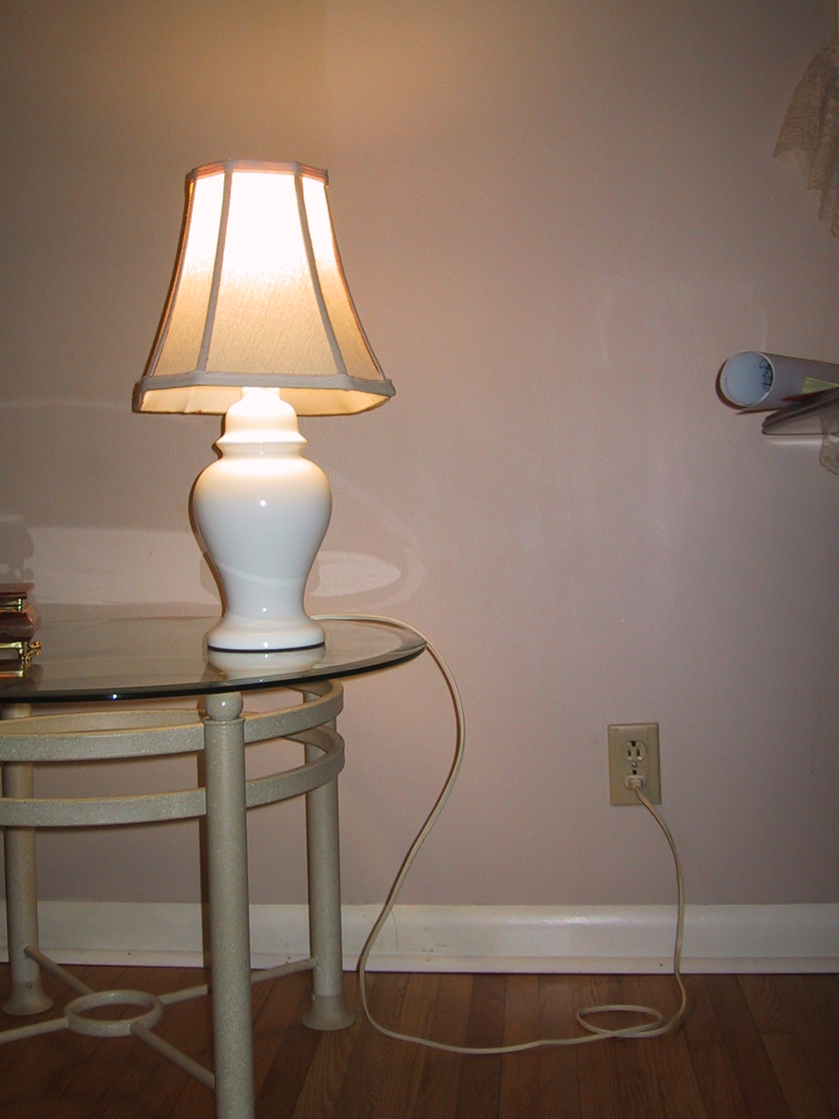 Wall plug and electric table lamp, a common application of centrally-generated electric power. The table lamp has a compact fluorescent lamp bulb. The NEMA wall outlet is a North American NEMA standard 120 volt 60 hertz 15 amp receptacle. This particular receptacle is installed with the ground pin above the line and neutral connections. The lamp attachment plug is polarized so that it only fits one way into the outlet; this ensures that the neutral is connected to the lamp shell, protecting users from accidental contact with a live terminal if changing the bulb without unplugging the lamp.